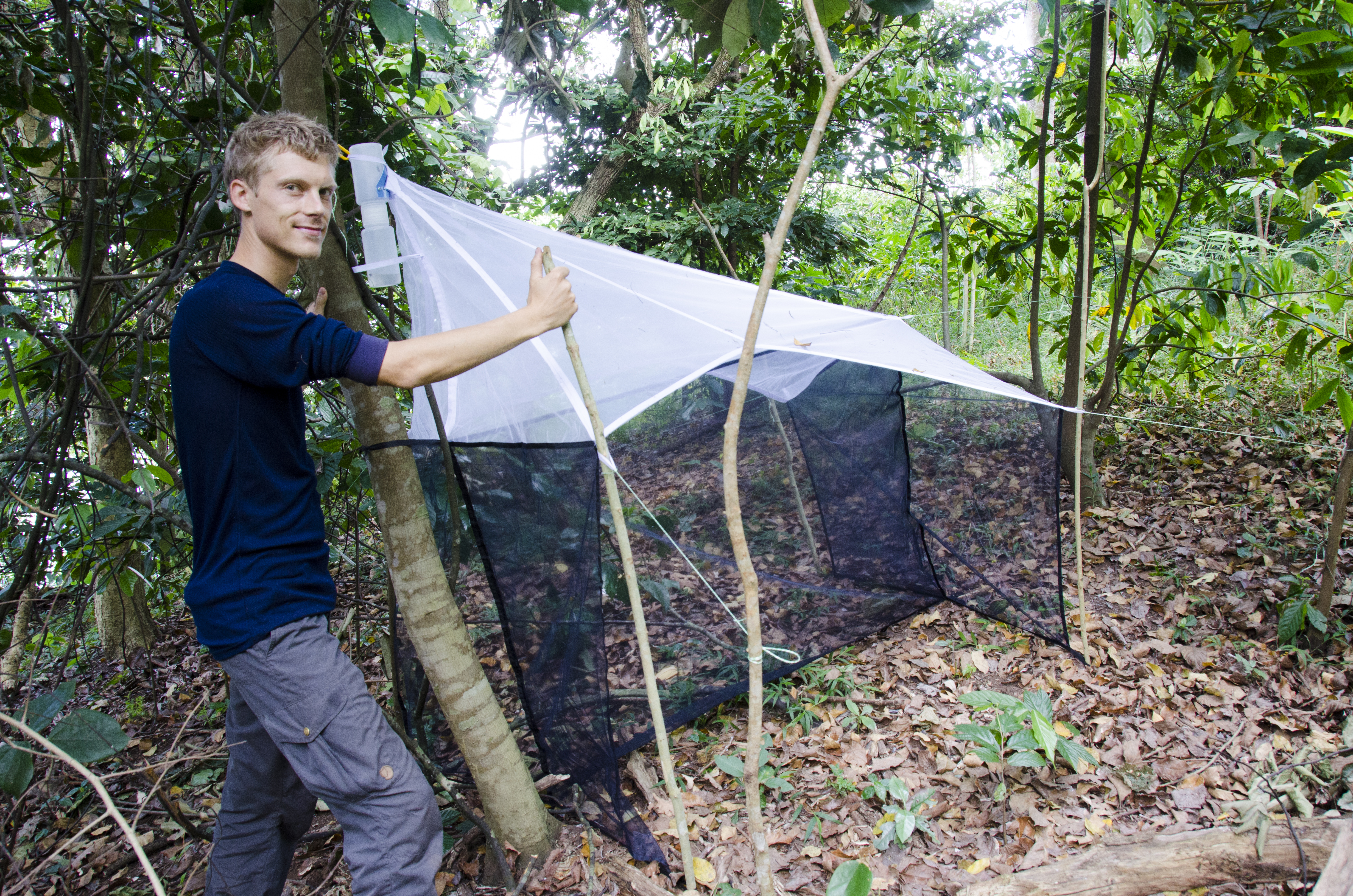 Presenting a common insect collecting method: the Malaise trap. I set it up during fieldwork in Udzungwa Mountains National Park, Eastern Arc, Tanzania Natural History Museum of Denmark.